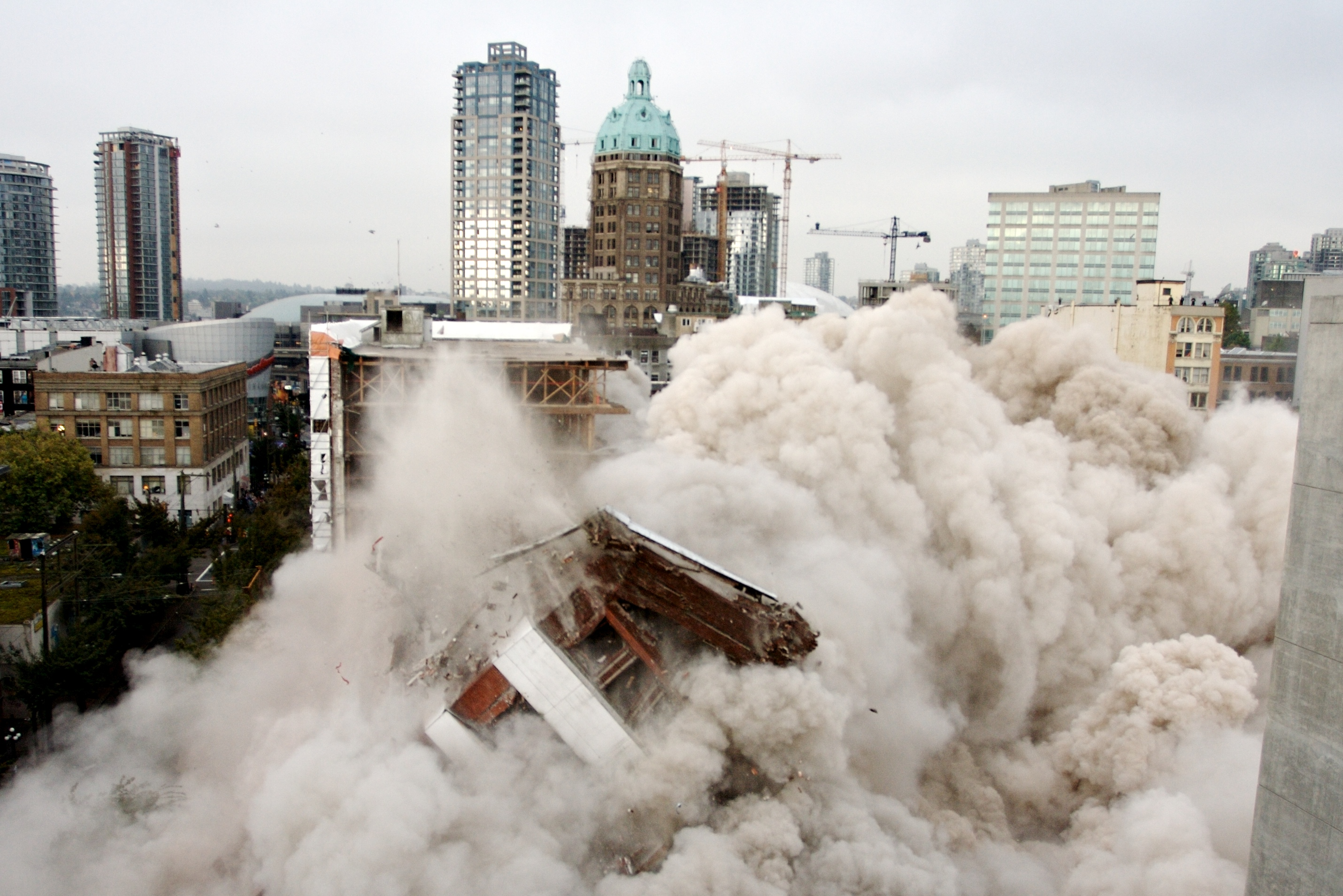 The Woodward's building in Vancouver, Canada, collapsing as it is demolished using explosives. The original 1903-1908 section of the building was left standing, and can be seen just beyond the cloud. Picture taken from the top of a building across Cordova Street, facing southwest.